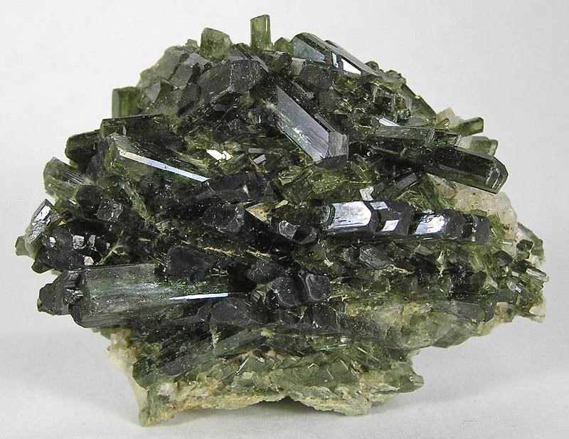 Diopside Locality: Khugiani, Nangarhar (Ningarhar) Province, Afghanistan (Locality at ) Size: 6.5 x 4.5 x 2 cm. A plate of GEMMY diopside crystals to 2 cm, some of them in rows with staggered terminations, from Afghanistan. These can sometimes be very dark green and not all that transparent, but these are really glassy!